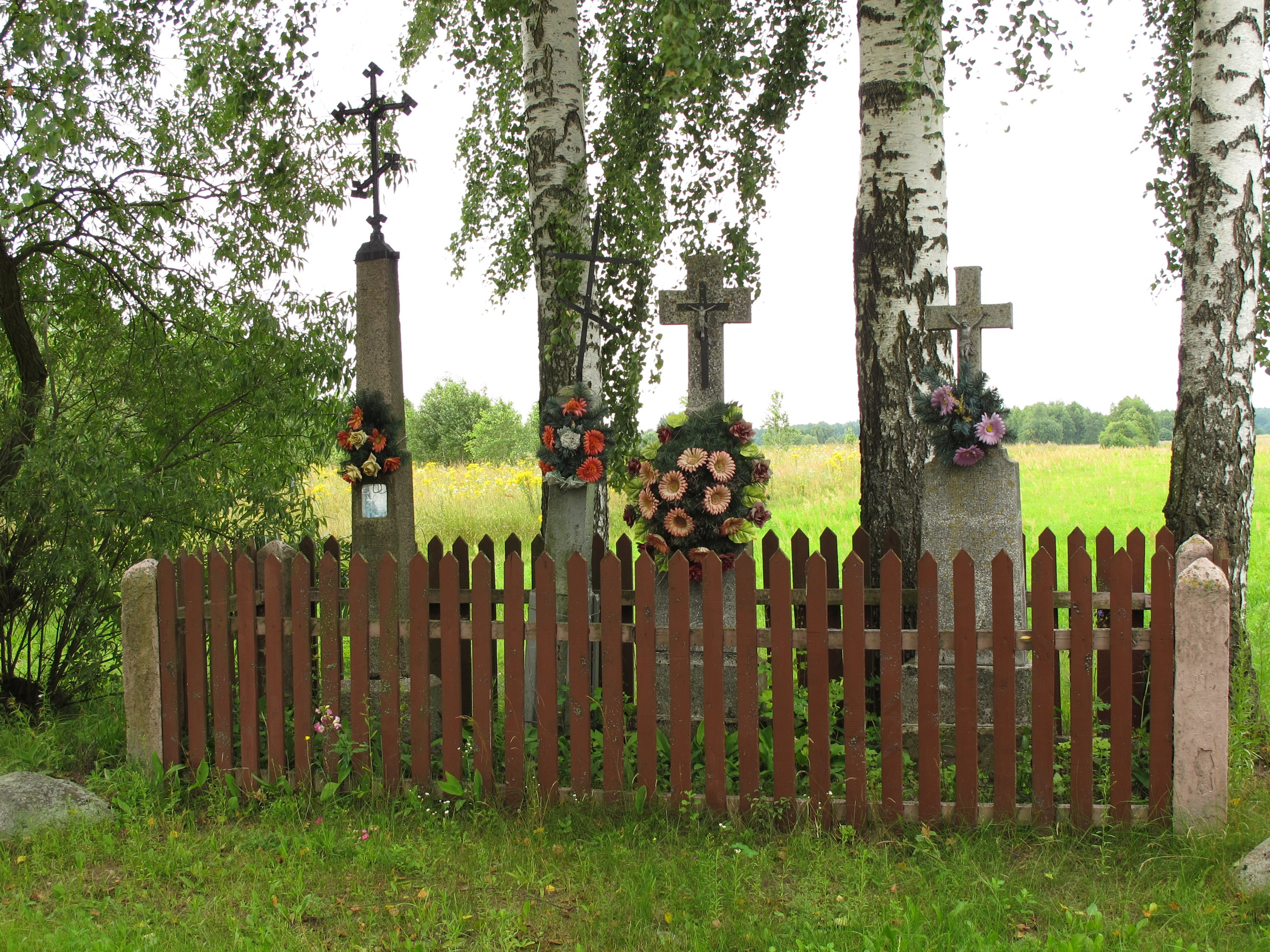 Crosses in the Sieśki village, gmina Zabłudów, podlaskie, Poland